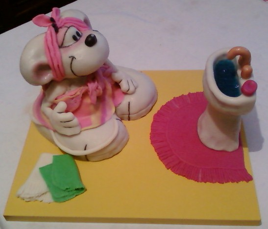 Image of cake, Gaga, Serbia